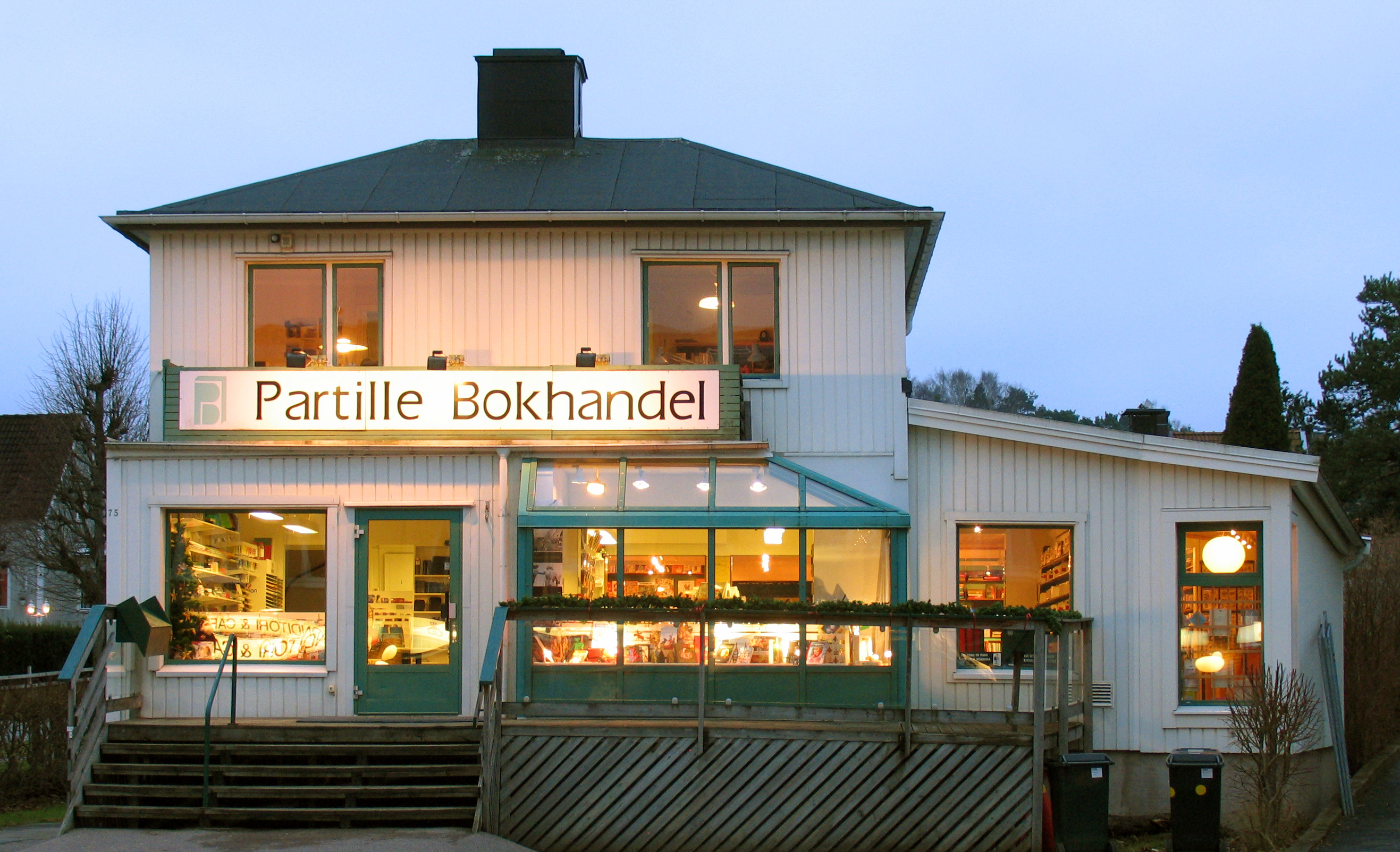 Partille Bokhandel shop building